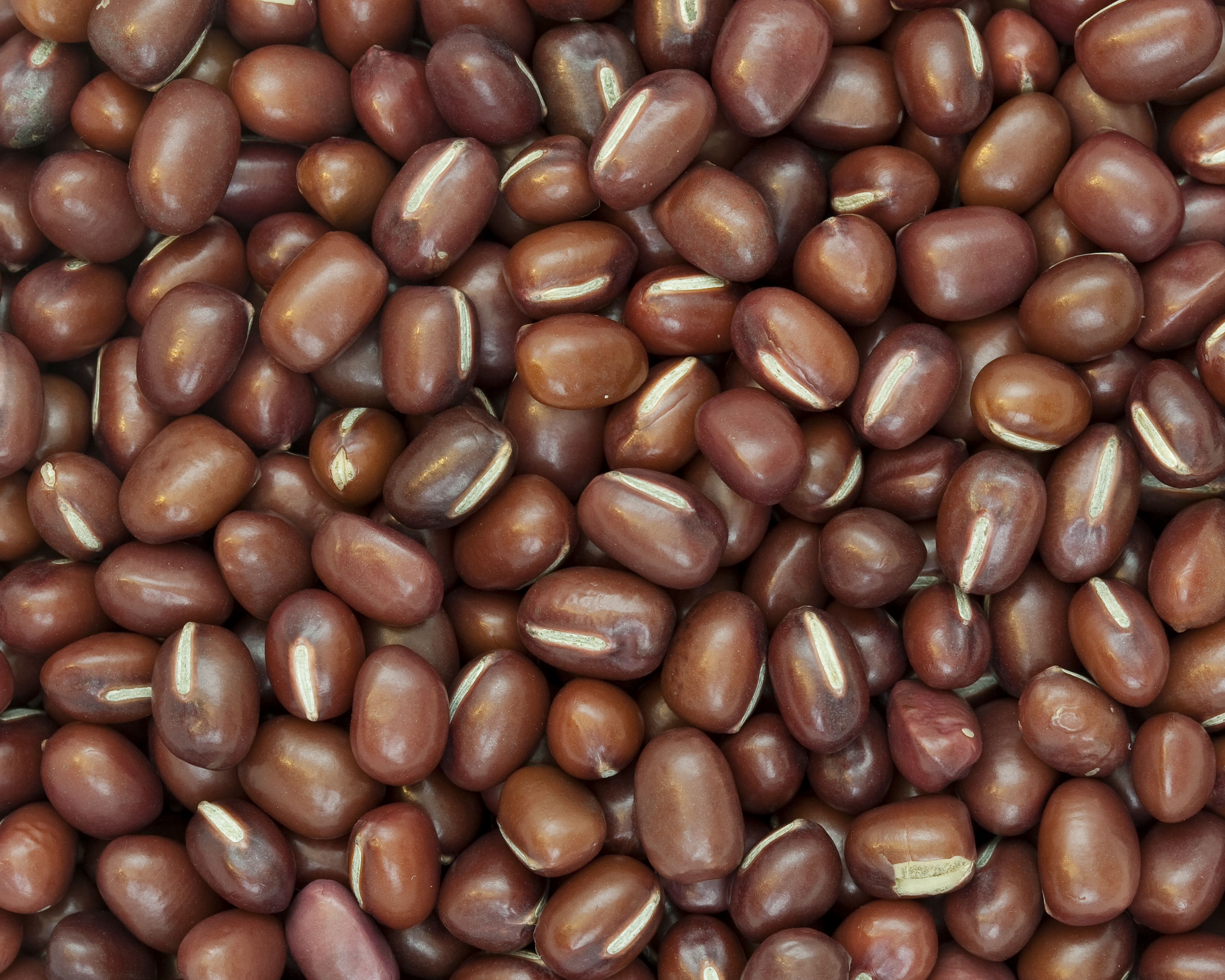 Picture of Adzuki (Vigna angularis) beans. The ones shown here are from China. The beans in the picture are of 9 mm length and 6 mm width.